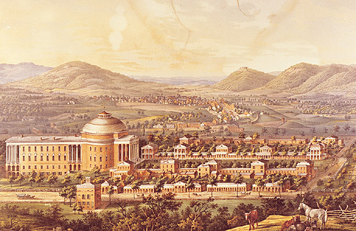 University of Virginia. Lithograph from 1856. (The proportions of the Rotunda and the Annex are exaggerated in comparison to the other buildings.) [not clear whether the colored version is the original; the University of Virginia Visual History Collection also has "only" a black-and-white image of the Lithograph online, see here Description from University of Virginia Visual History Collection: Title: View of the University of Virginia, Charlottesville & Monticello, taken from Lewis Mountain (...) Comments: University of Virginia, from the west, showing Rotunda, Annex, Lawn, Ranges, and Anatomical Theatre. Published by Casimir Bohn, Washington, D.C. and Richmond, VA, labeled, lower left, "Drawn from Nature & Printed in Colors by E. Sachse & Co." labeled, lower right, "Sun Iron Building, Baltimore Md." 13 b&w photographs Image Filename: prints00017 Accession Number: MSS 2535 Copy Negative Number: ps1946 description at source: "View of the University of Virginia" by Casimir Bohn; University of Virginia Library